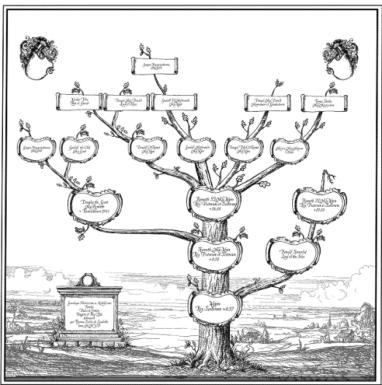 fictional family tree made with "Family tree - cliparts CD"